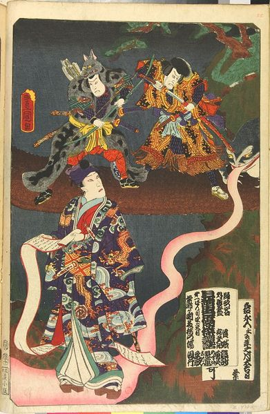 PLAY-"JIRAIYA GOKETSU MONOGATARI"; KAWARAZAKI-ZA, 1852/07; TOZOKU YASHA GORO - ICHIKAWA EBIZO V; TAKASAGO YUMINOSUKE - ARASHI RIKAN III; JIRAIYA - ICHIKAWA DANJURO VIII. AUTHOR - KAWATAKE MOKUAMI.